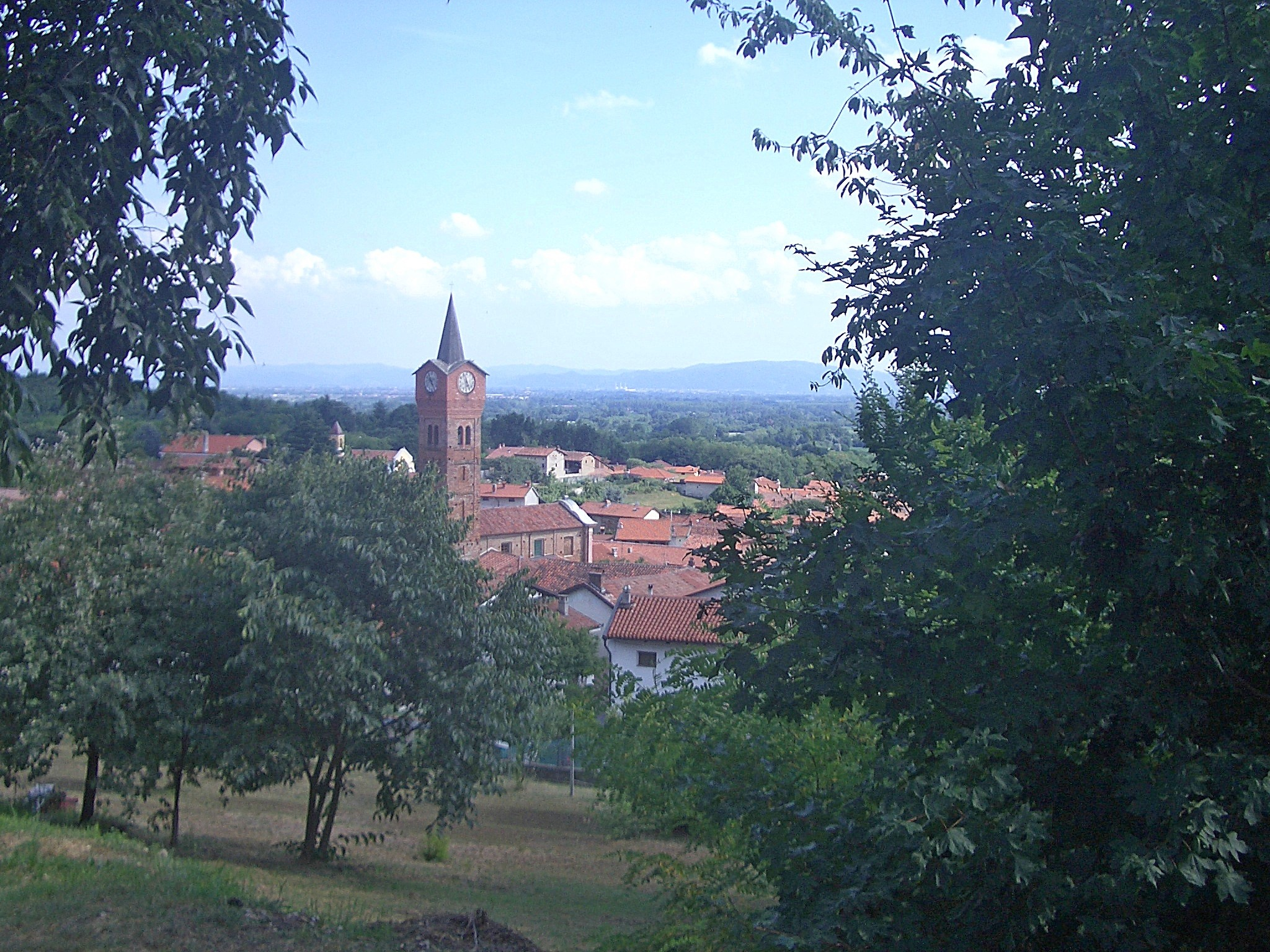 Montalenghe, landscape